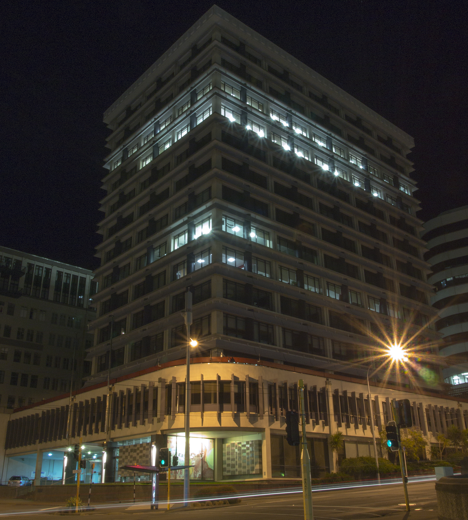 RBNZ building in Wellington, NZ at night.